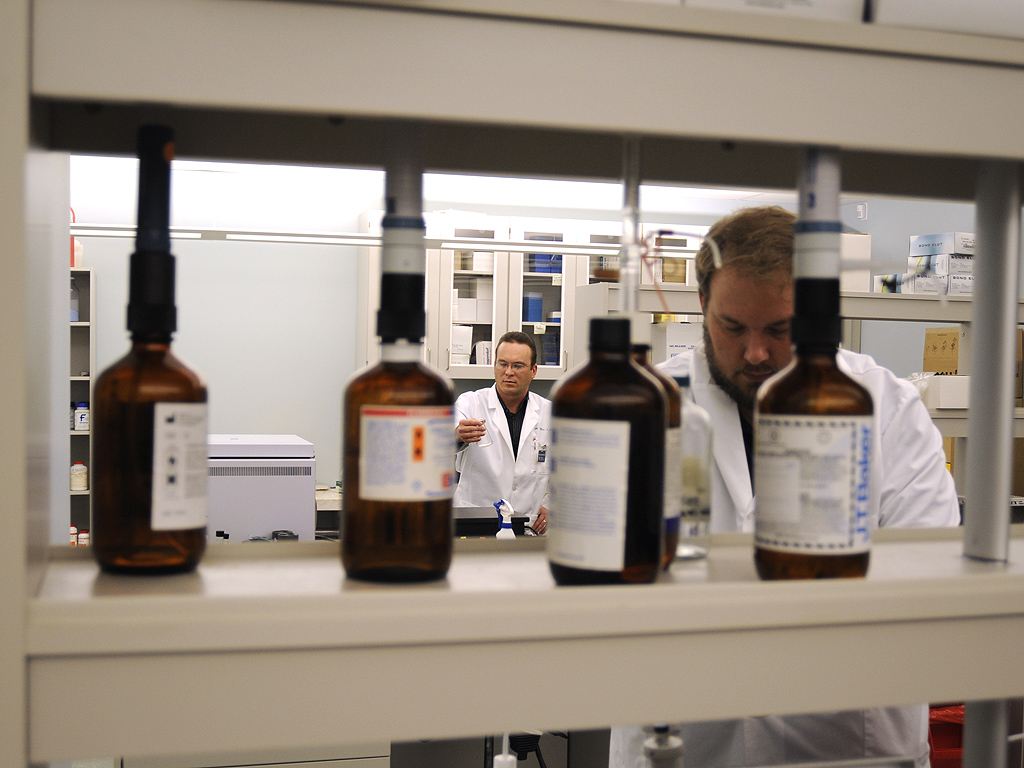 CAMI scientists conduct research to detect and measure drugs, alcohol, toxic gases, and toxic industrial chemicals in victims of fatal aircraft accidents as a contribution to the analysis of accident causation.